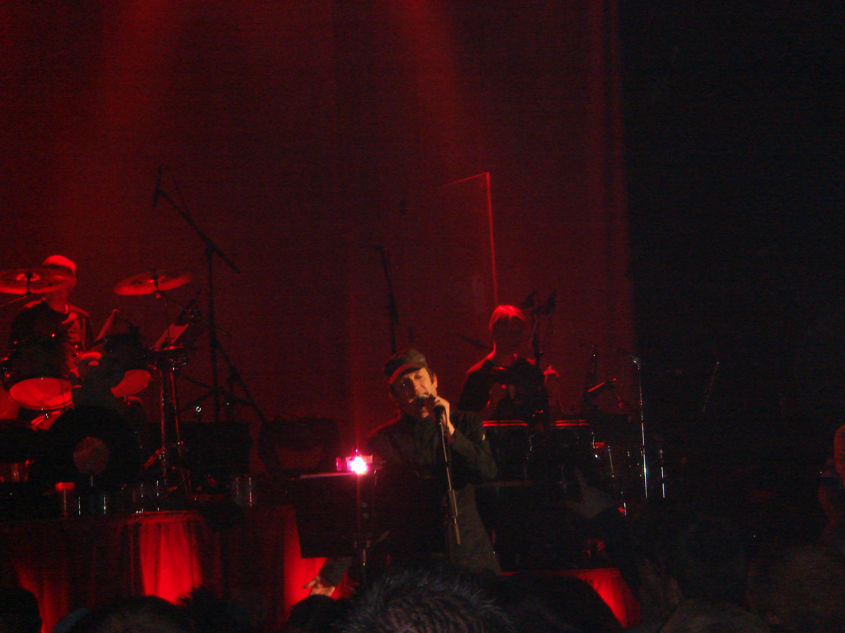 Paul Heaton, lead singer of The Beautiful South, centre stage in concert.